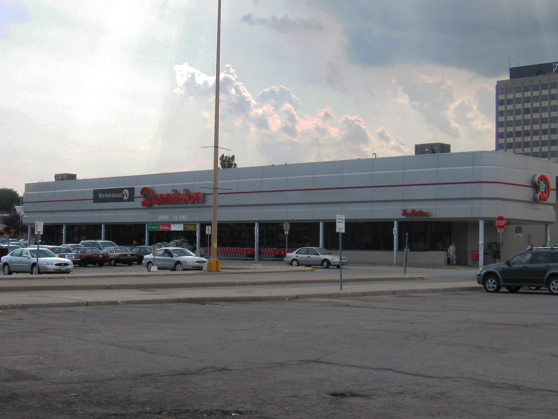 Photograph of Don Mills Centre (Toronto, Ontario, Canada) during nearly complete demolition.